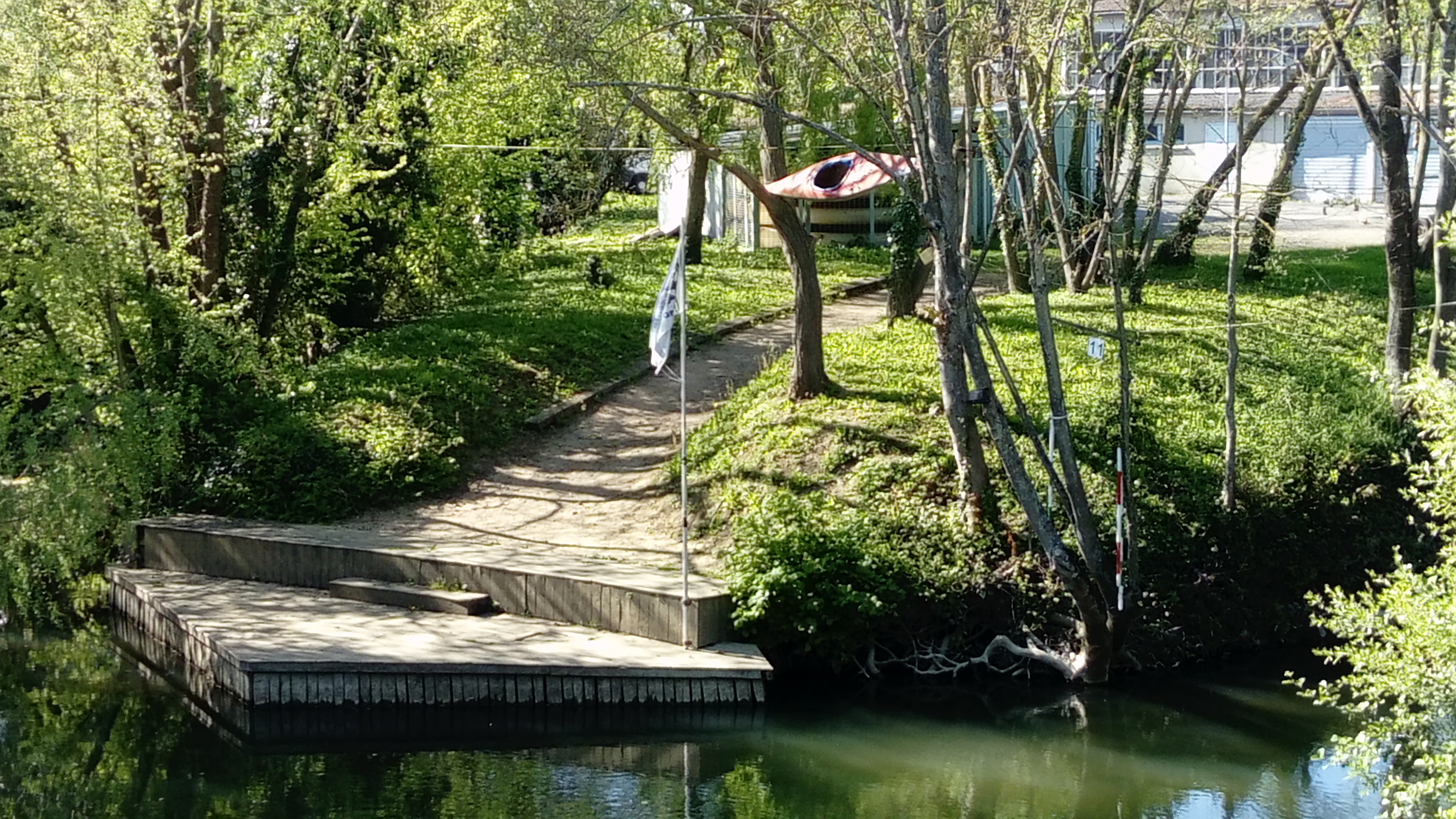 A canoe-kayak in a tree on the bank of a pond in Argentan, Normandy, France.